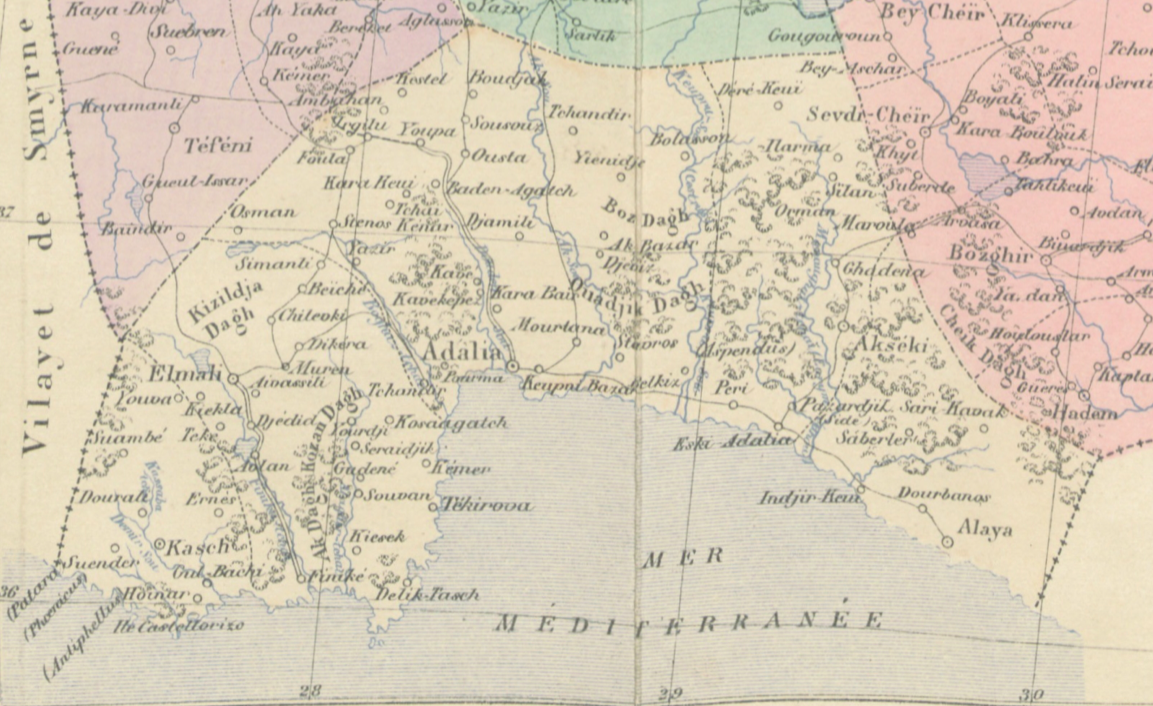 Vilayet of Adalia (Antalya) in 1890